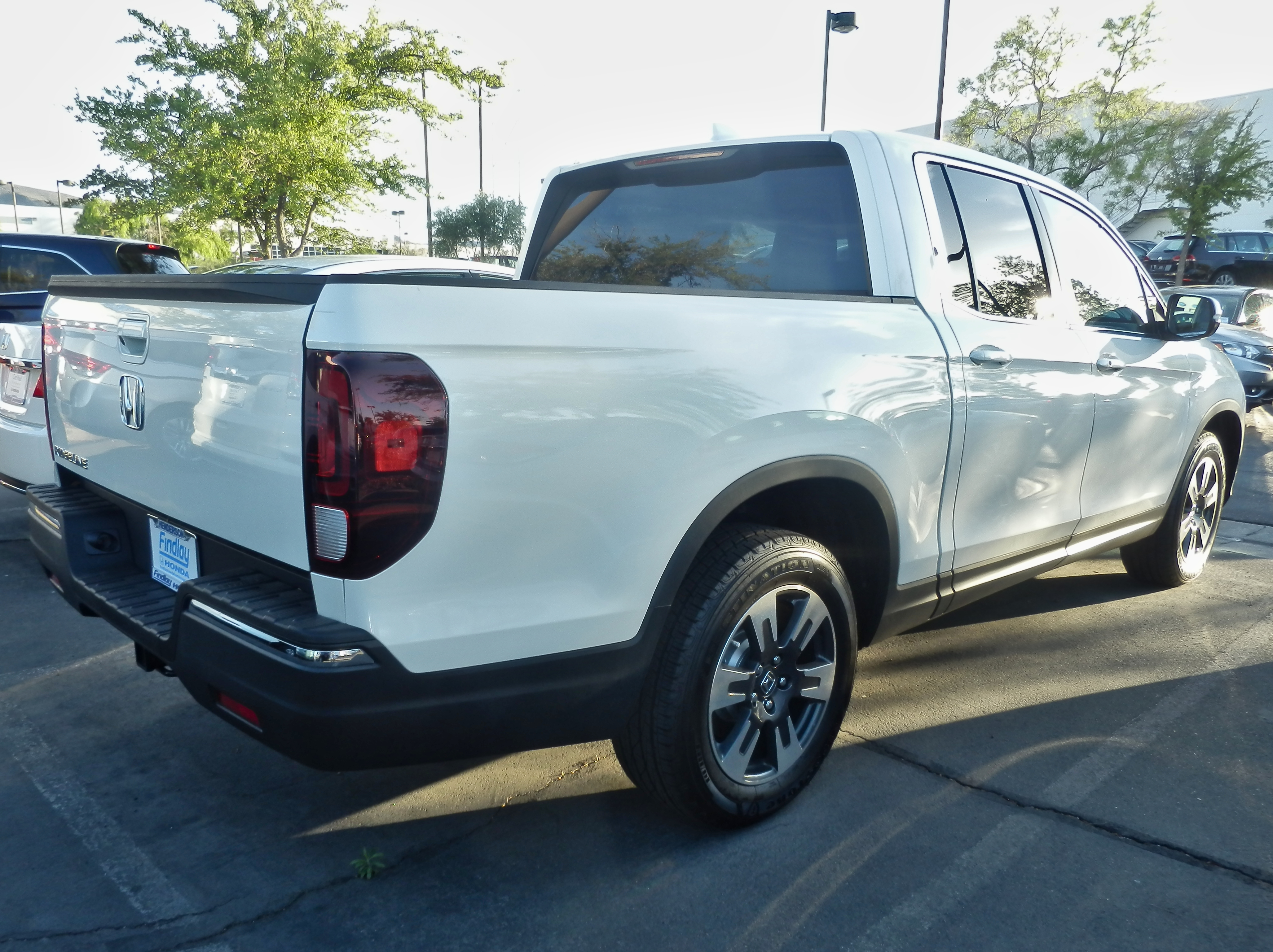 Honda Ridgeline RTL in Las Vegas